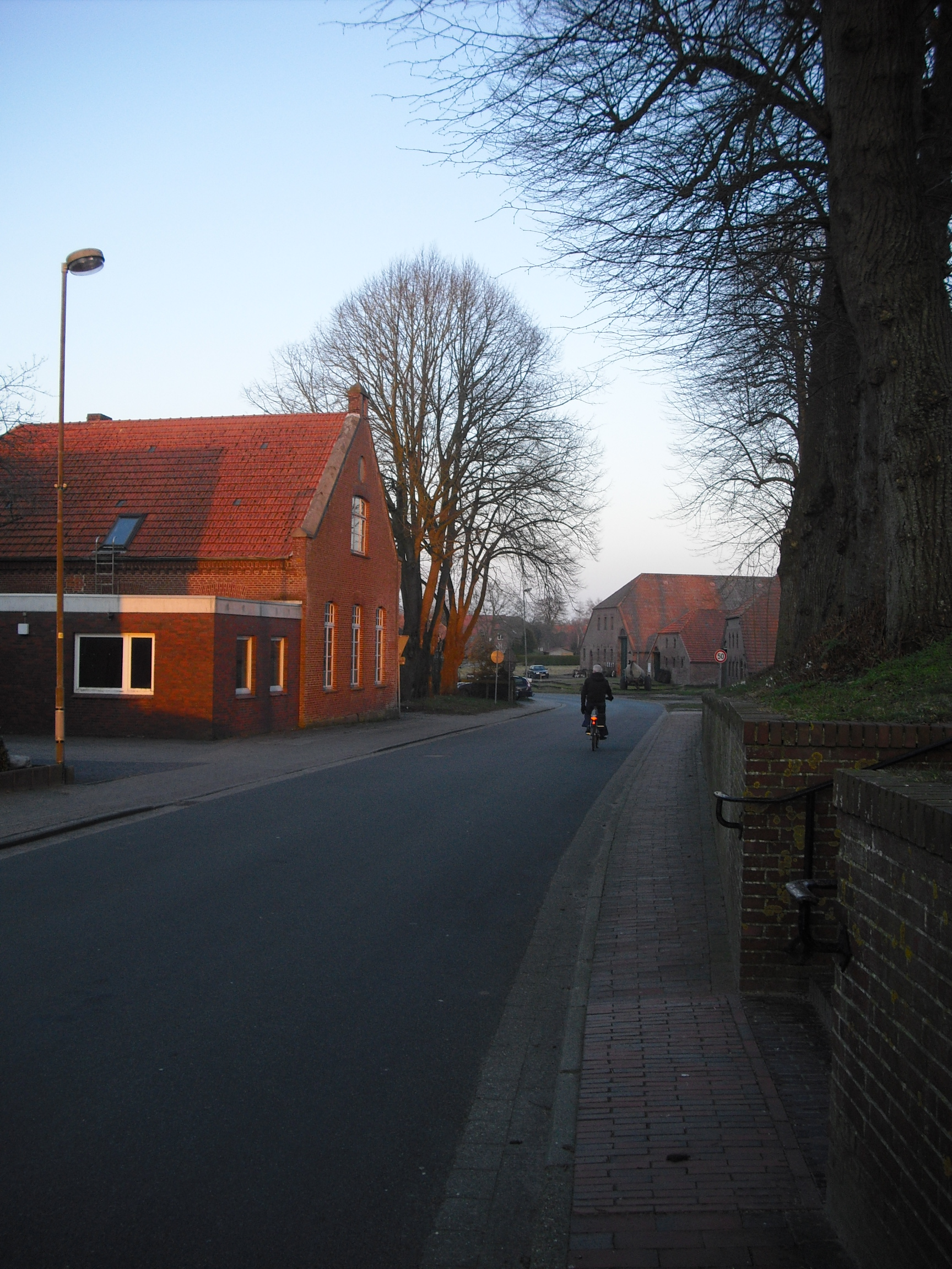 German village Leerhafe (City of Wittmund)